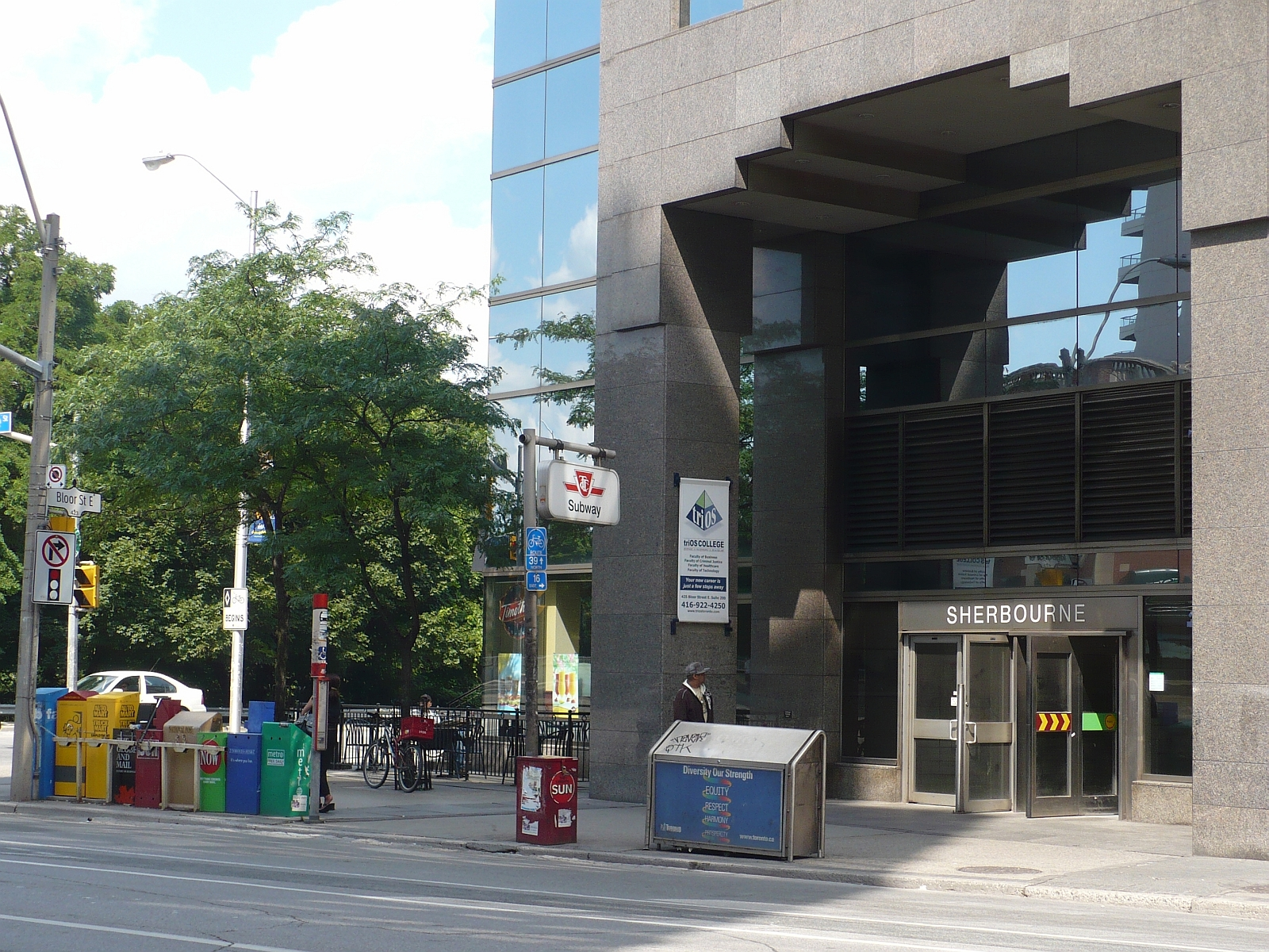 Main entrance on Sherbourne Street to Sherbourne subway station in Toronto